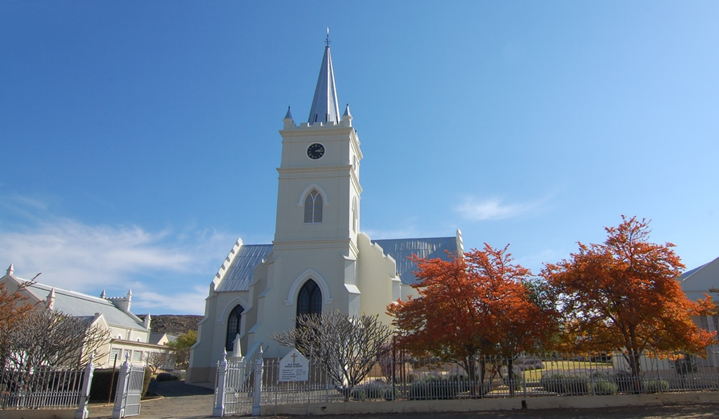 Dutch Reformed Church and Hall, Prince Albert This media shows a South African Protected Site with SAHRA file reference 9/2/076/0019.